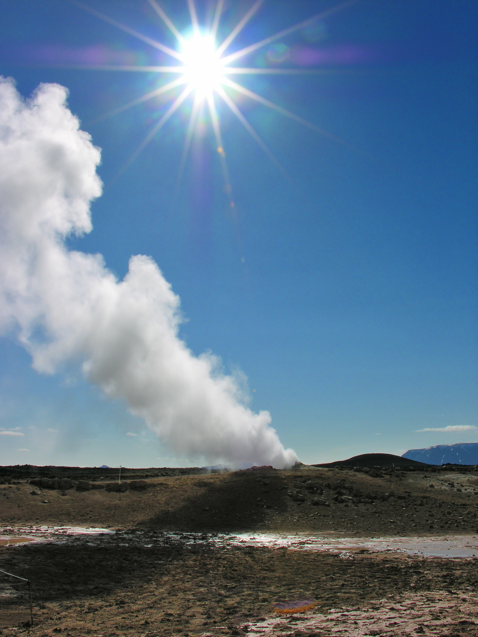 Iceland, hiking in the Námafjall geothermal area